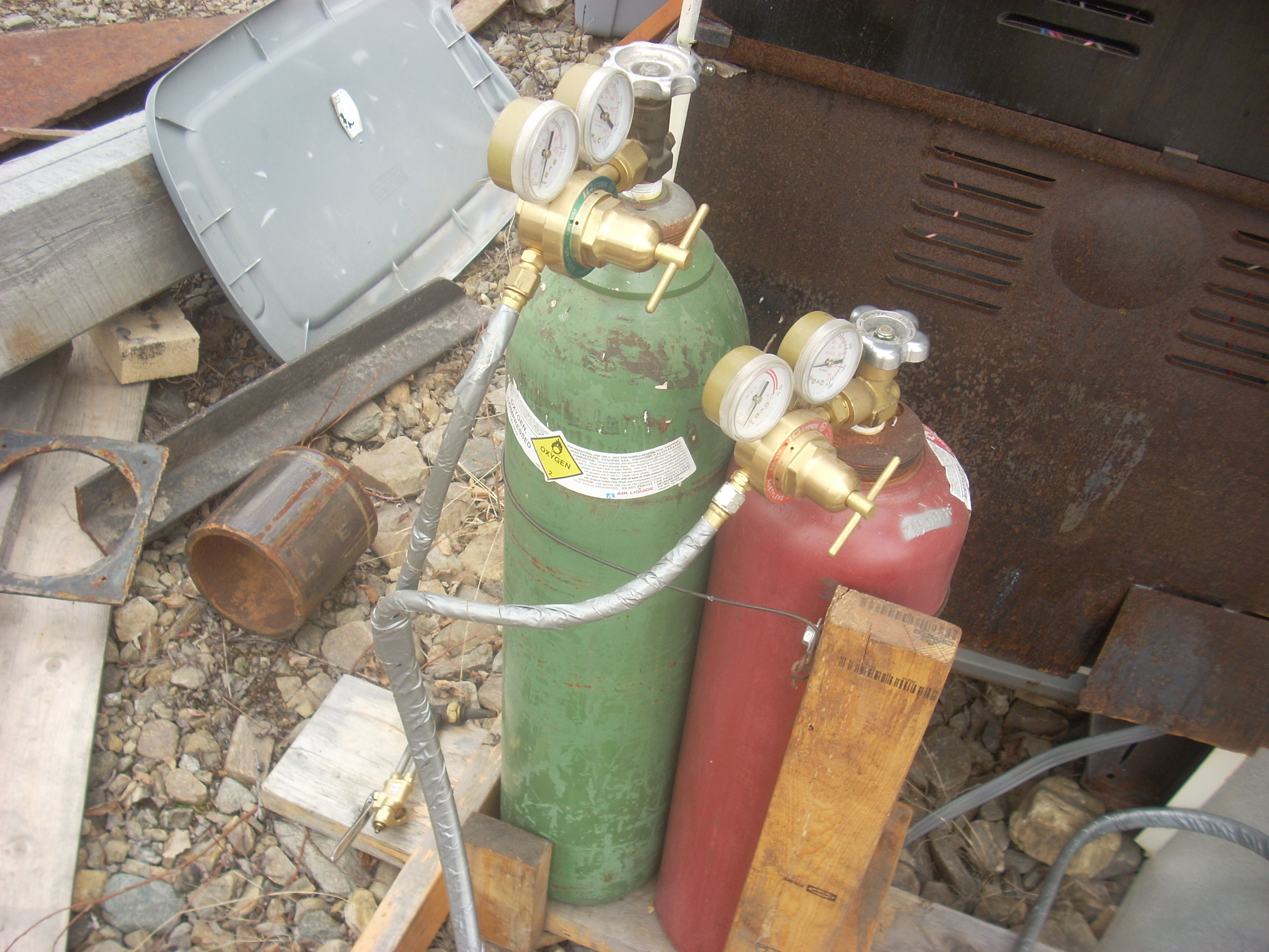 Oxy-fuel welding set